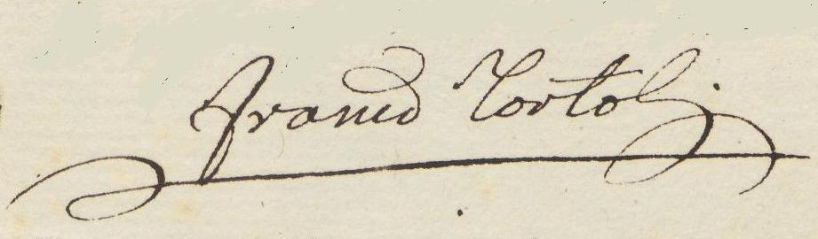 Signature of Francesco Tortoli (1790 – 1824) on a contract for the Teatro San Carlo in Naples. Tortoli was the chief scenographer of the theatre. MS Thr 415 (249), Houghton Library, Harvard University